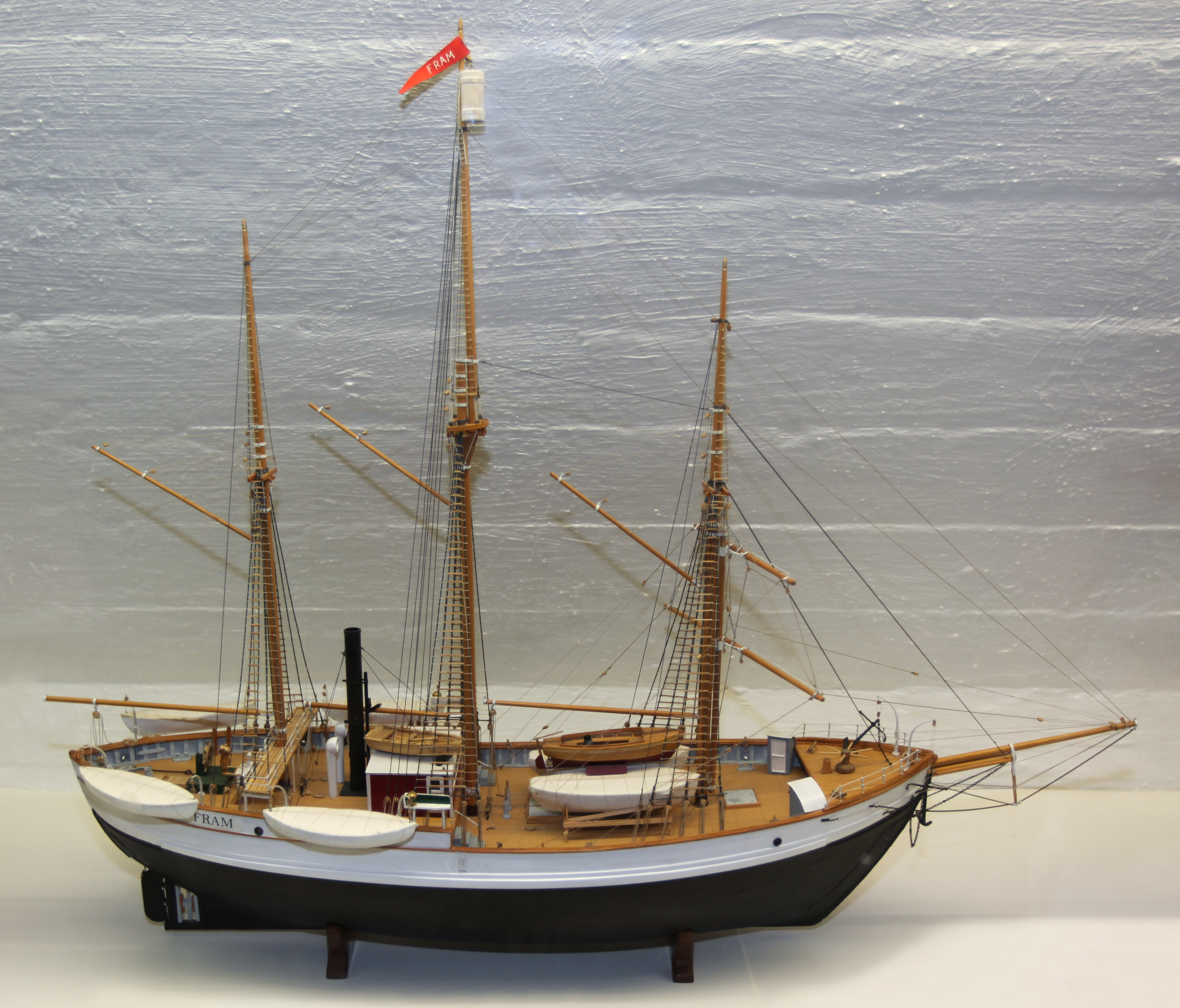 Model of the Fram 1893-1896 at the Fram Museum, Oslo, Norway. Model by Colin Archer.